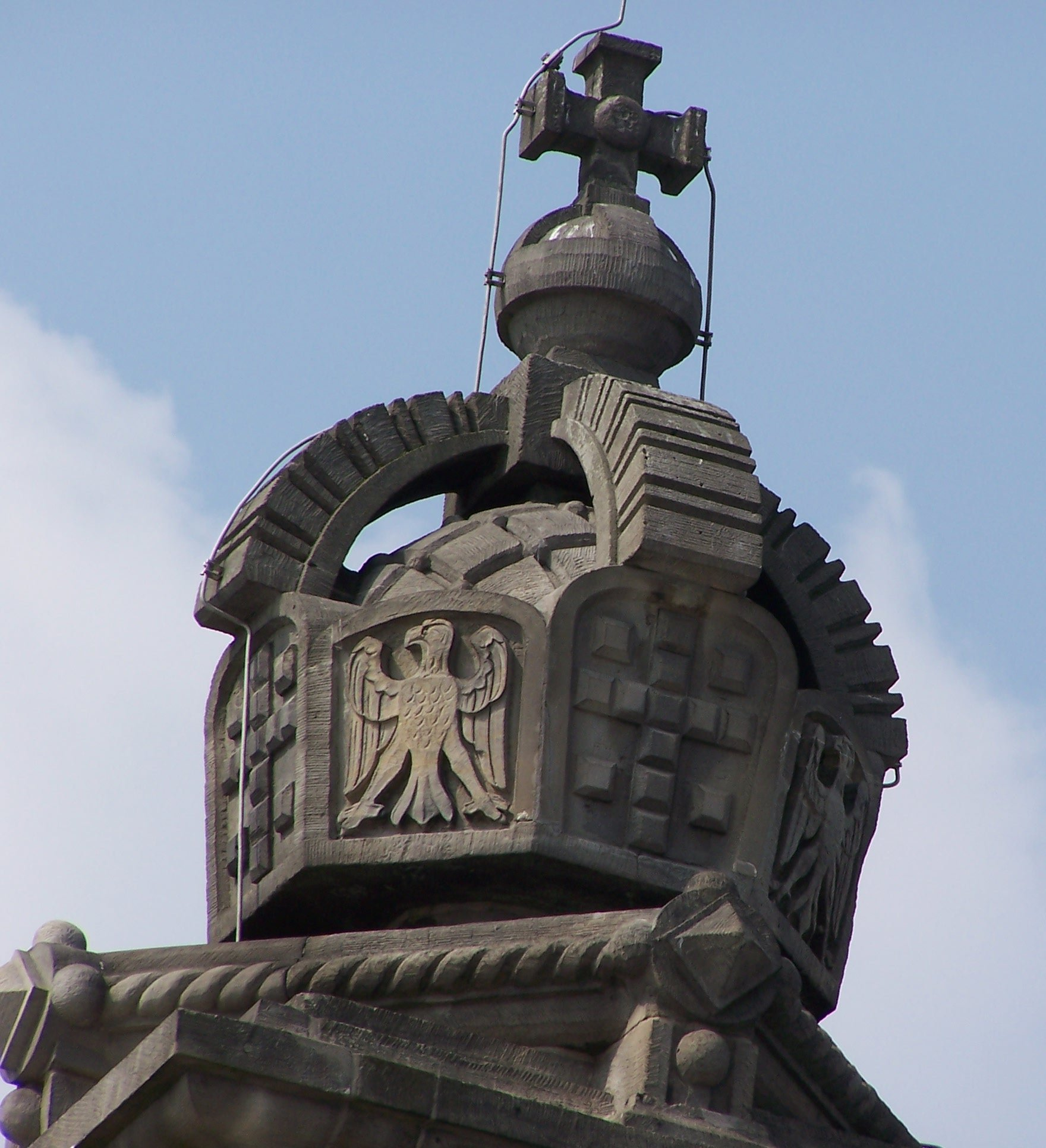 Imperial Crown of Germany (never actually existing, see there), model on the roof of the Reichstag